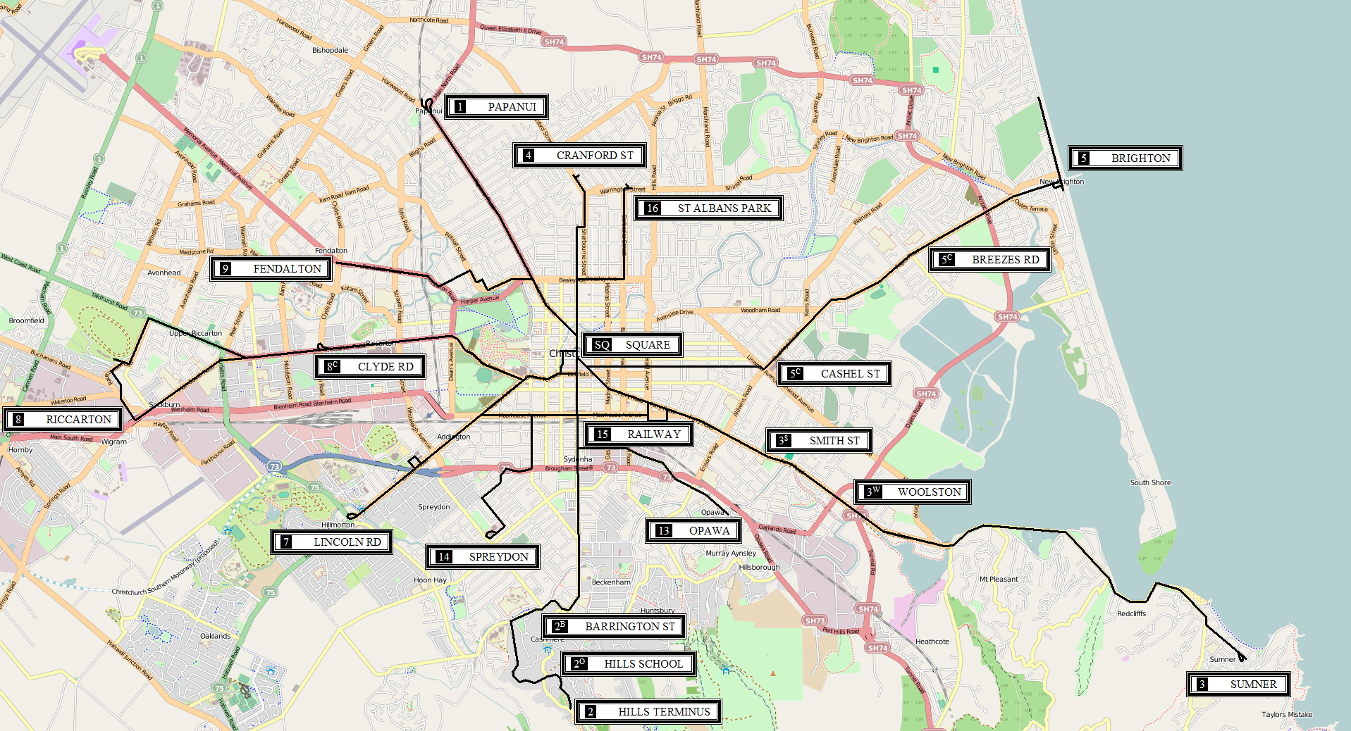 Route map of the Christchurch Tramway Board tramway system in Christchurch, New Zealand as at January 1950. N.B. The base road map used here is for reference only and no attempt has been made to make it commensurate with the era in which the tramway operated.